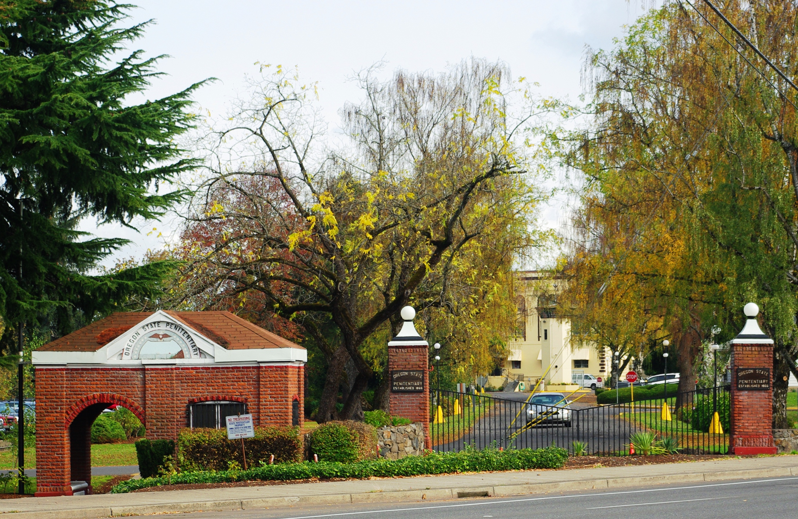 Gates to the Oregon State Penitentiary in Salem, Oregon, USA.